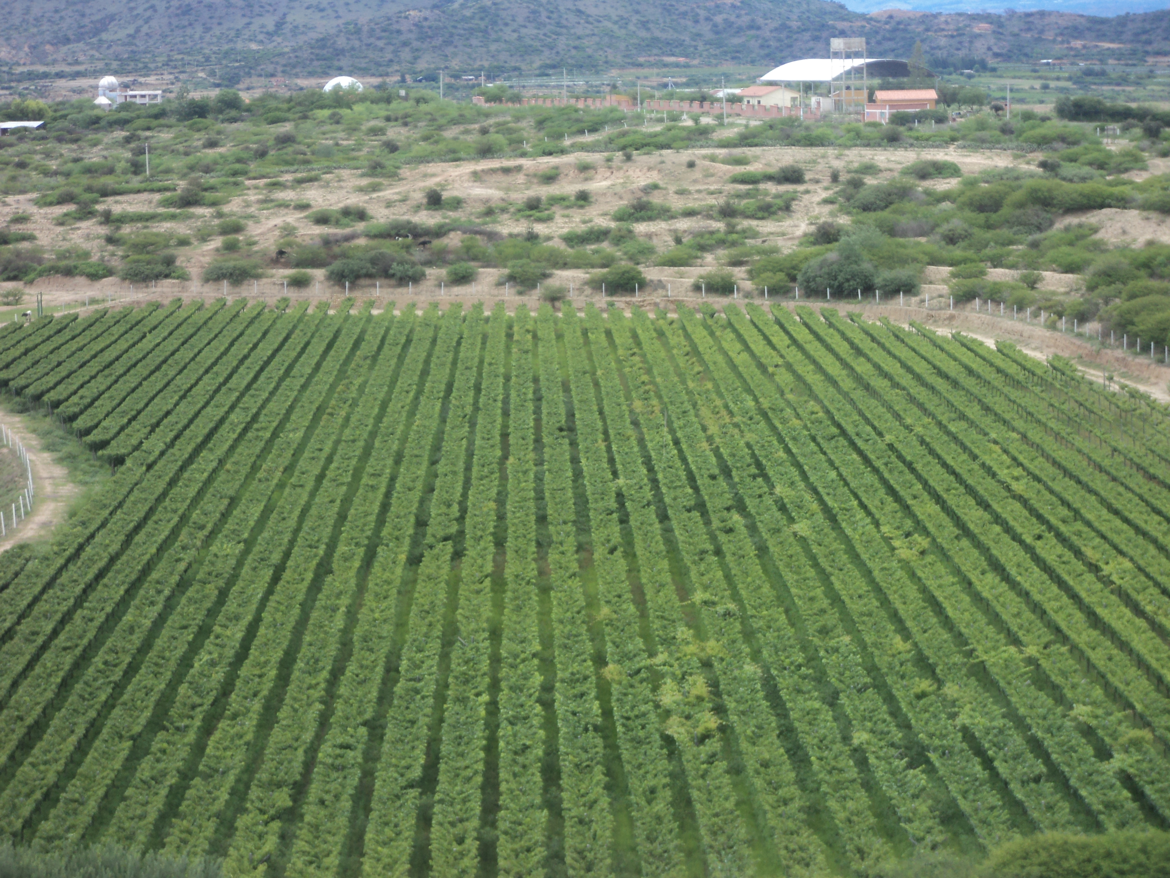 Kohlberg's Vineyards, Tarija (Bolivia)